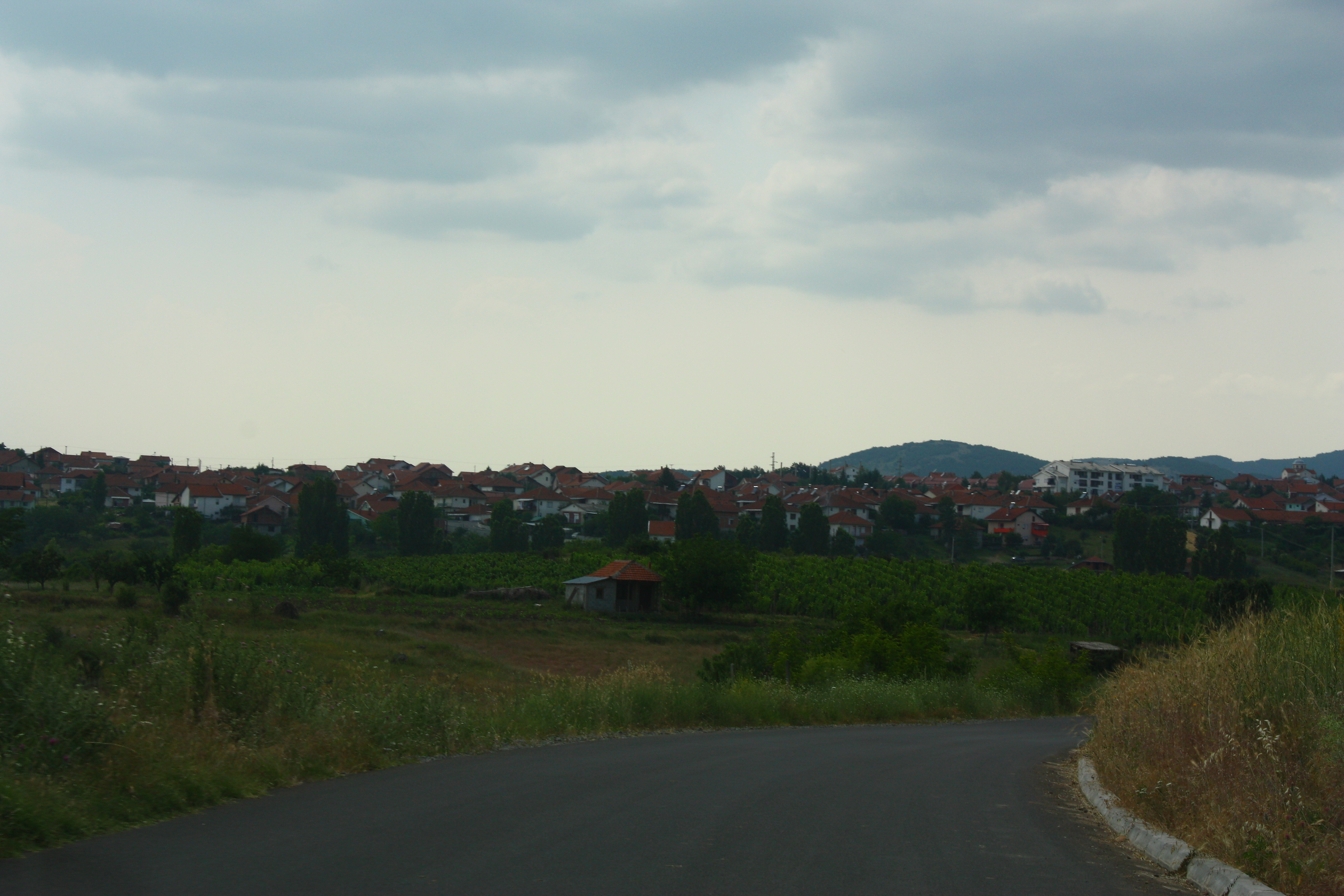 Probištip, Macеdonia.